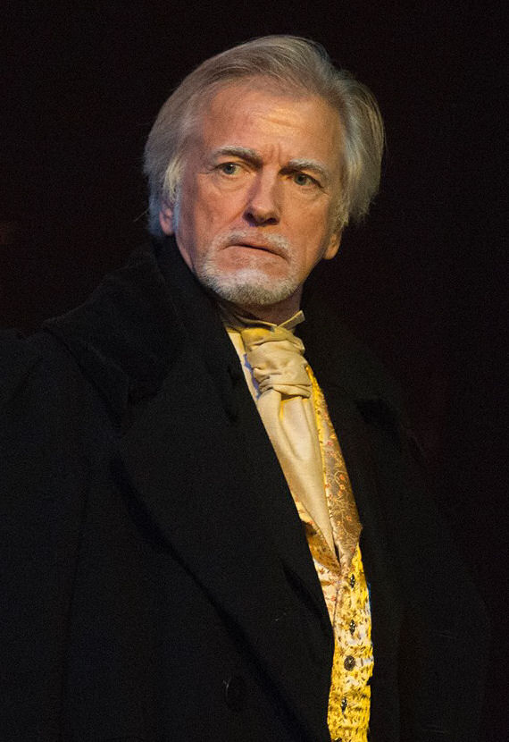 Photograph of the actor Paul Lavers taken onstage by me at the Grand Theatre in Wolverhampton in 2014